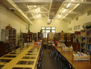 Library - This is where students can read and check out books, and access the Internet.